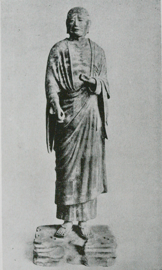 One of The ten principal disciples of Buddha: Furuna, Hollow dry lacquer, 149.cm, 8th century Kōfuku-ji, Nara,, Japan